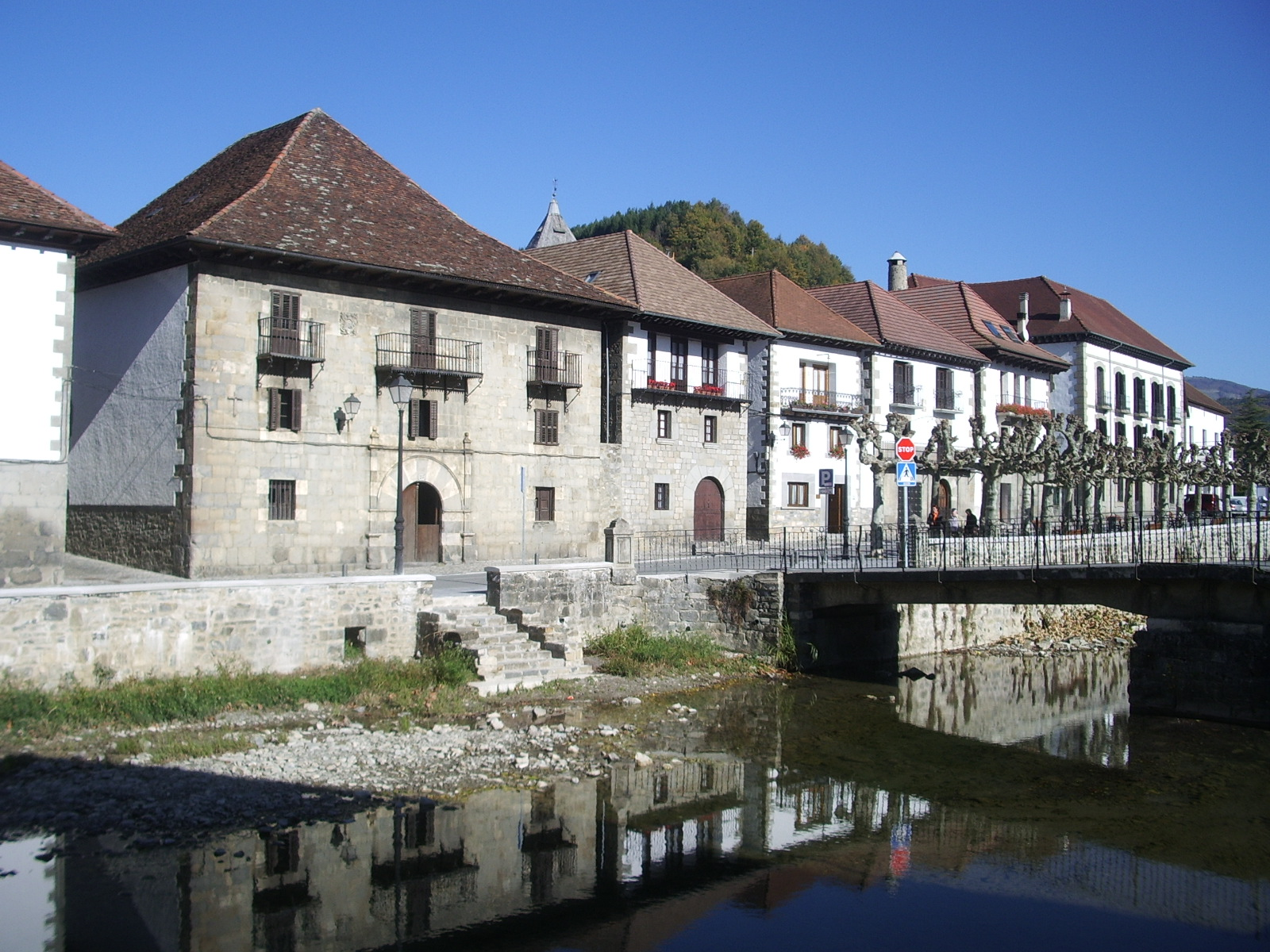 Houses by the river, Iribarren neighbourhood (Otsagabia, Navarre)